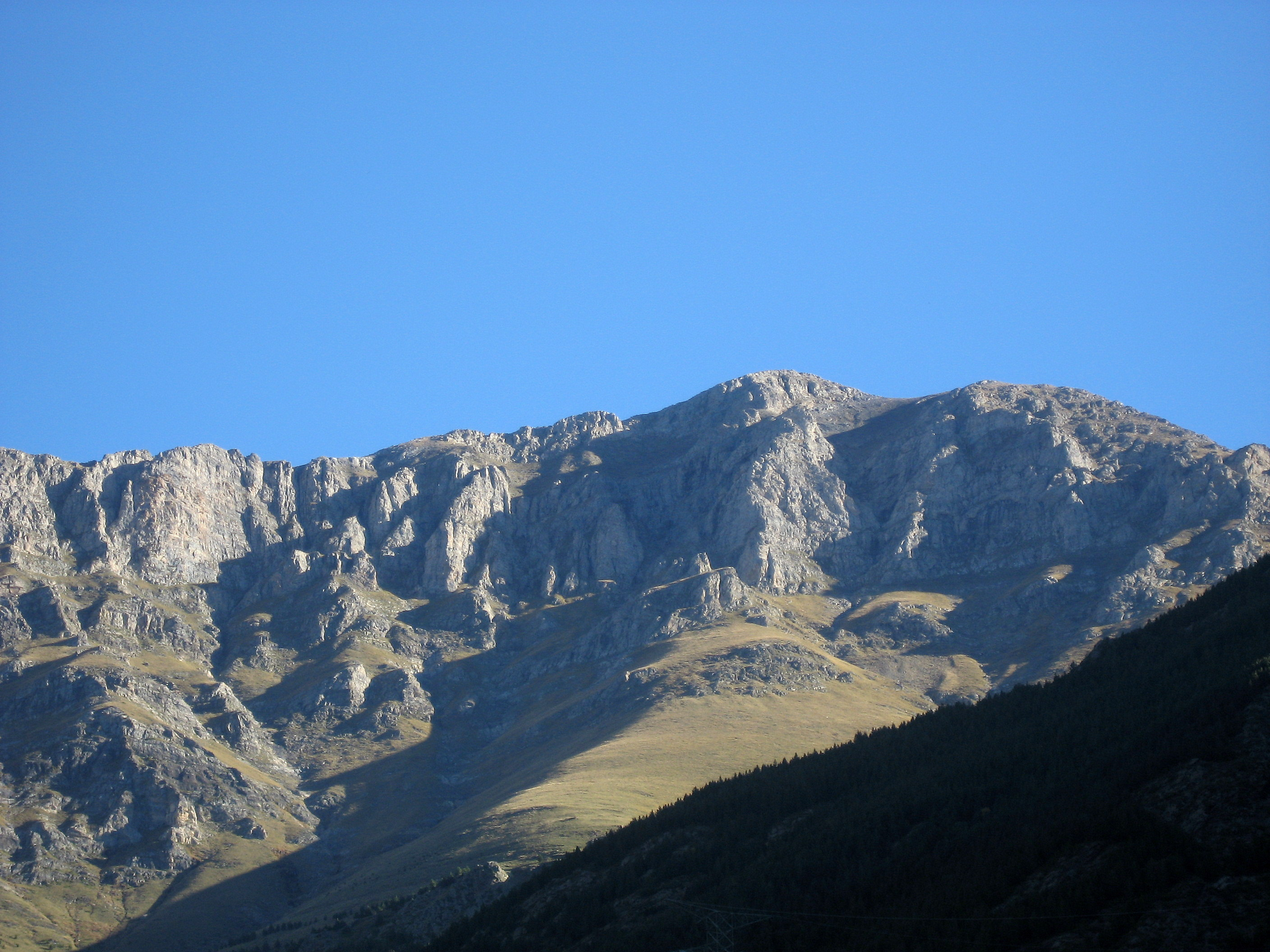 Montseny de Pallars (Vall Fosca)